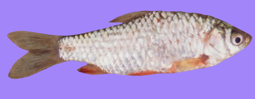 Olive Barb (Puntius sarana). A fresh water fish species from Kathani river of Wainganga basin from the Gadchiroli district of Maharashtra state India.